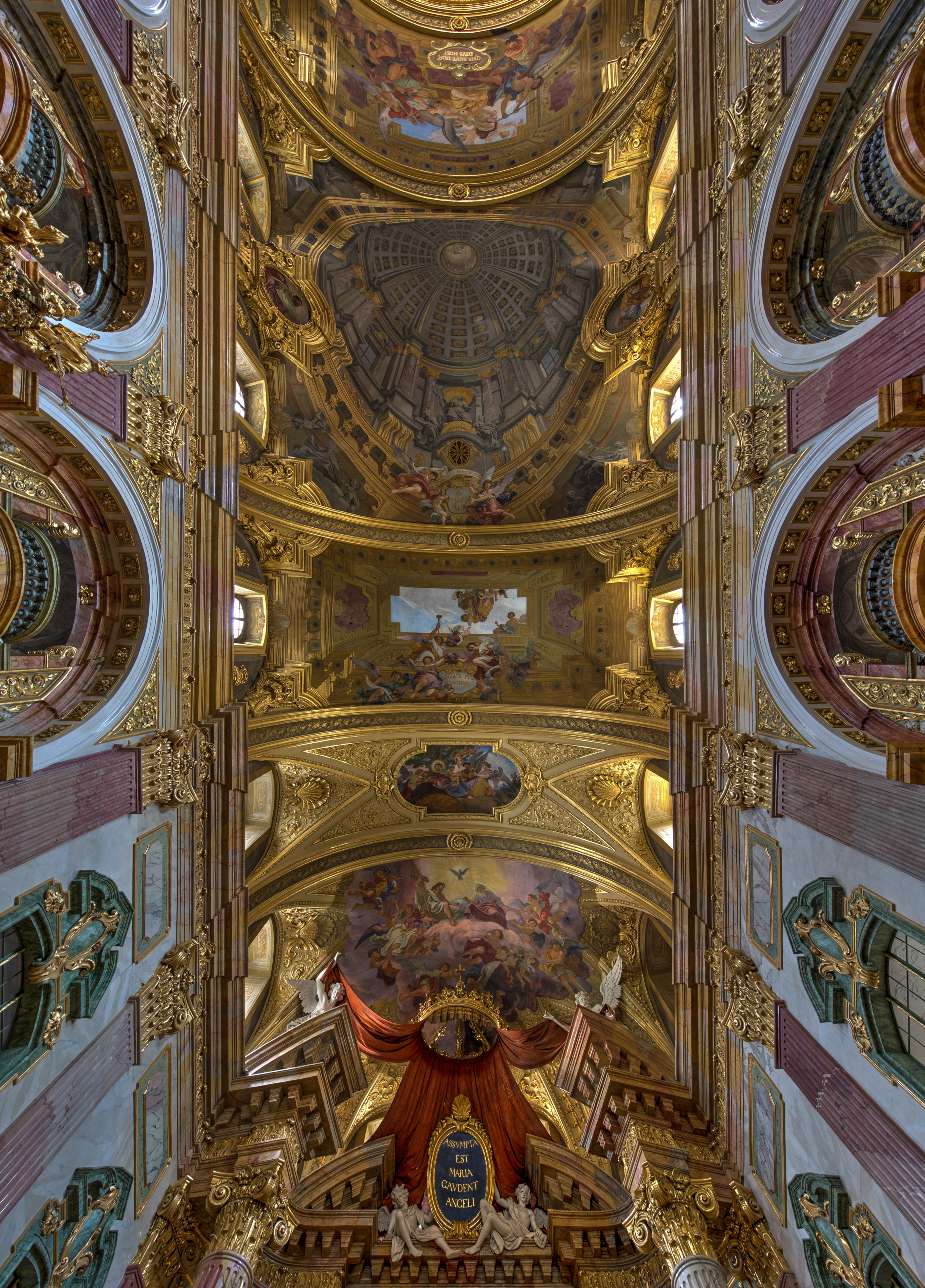 Jesuit Church, Dr.-Ignaz-Seipel-Platz, Vienna, Frescoes by Andrea Pozzo during his time in Vienna (1702-1709).